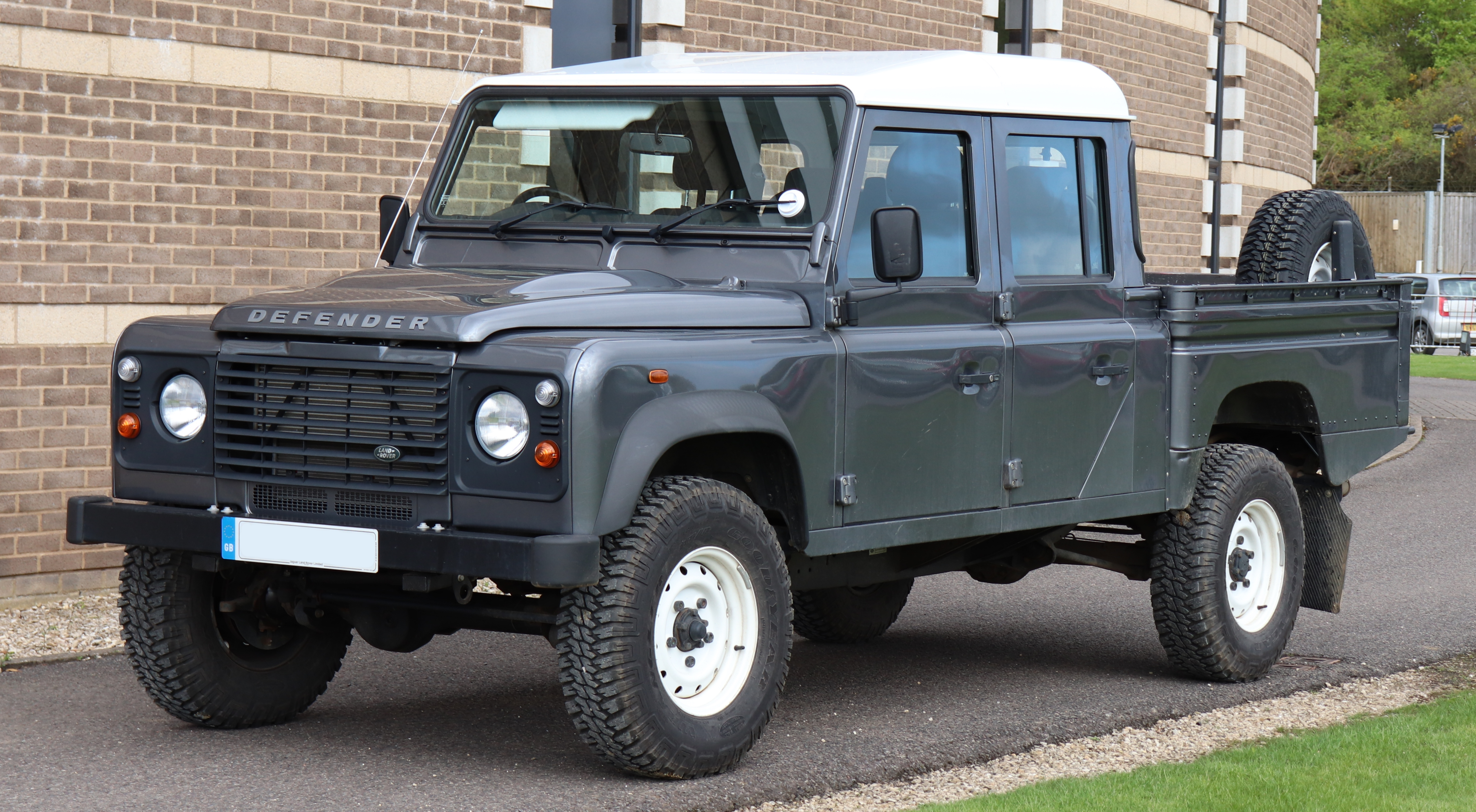 2016 Land Rover Defender 130 HCPU TD 2.2 Front Taken at the British Motor Museum, Gaydon